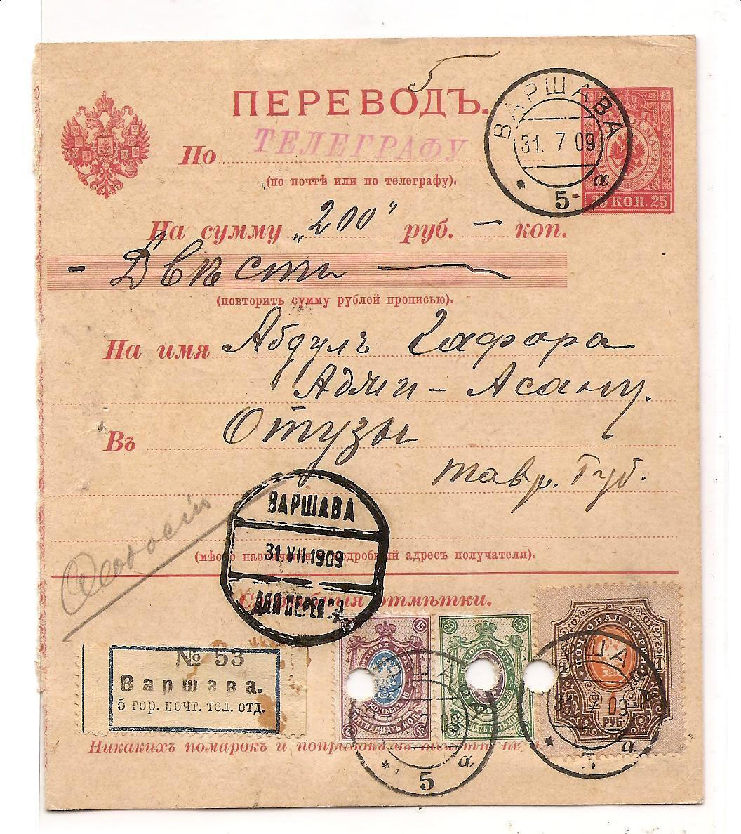 A stamped postal telegraph order of the Rissian Empire, 1909. Franked with three more Russian postage stamps additionally cancelled with punch.